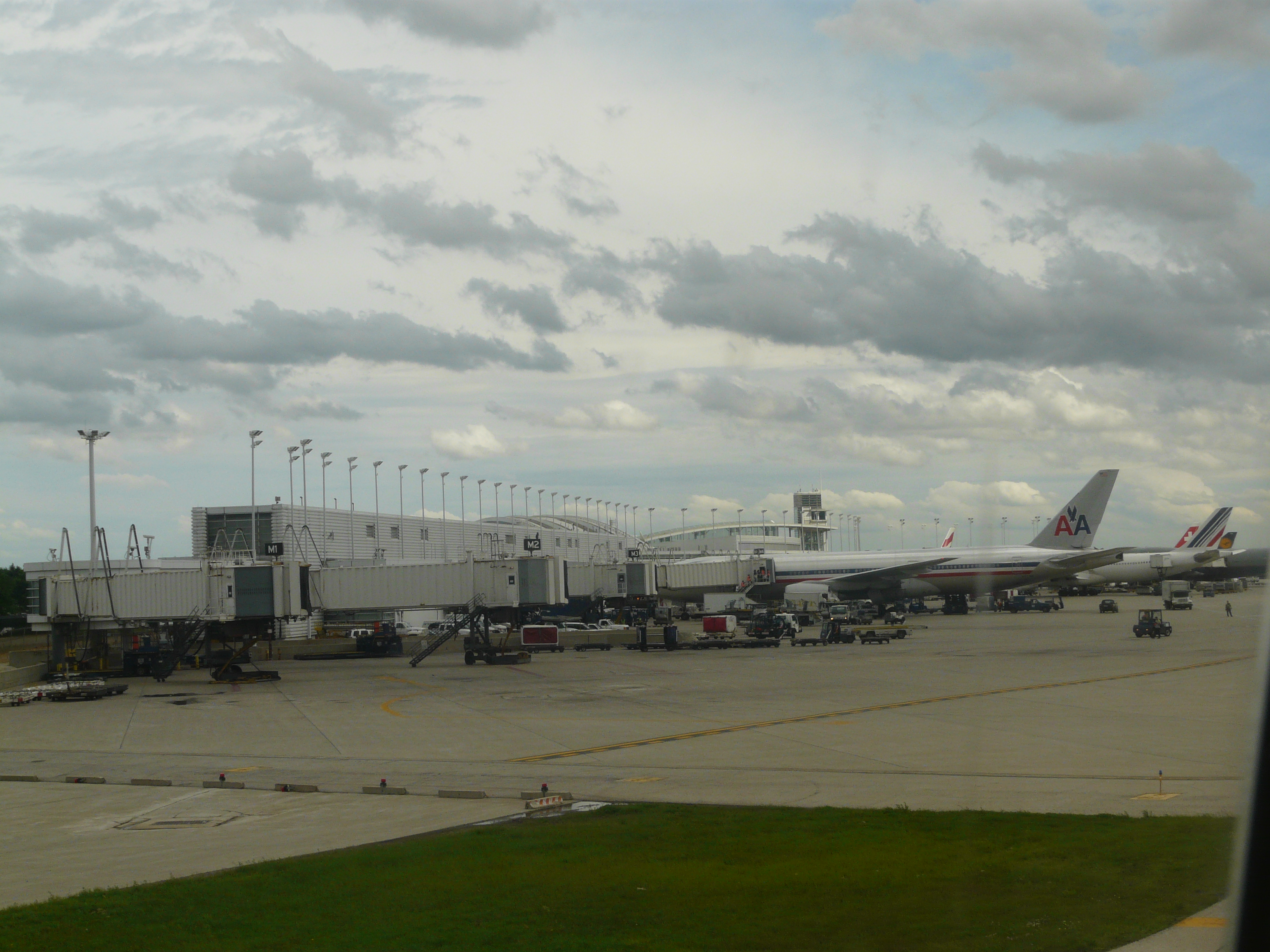 O'Hare International Airport